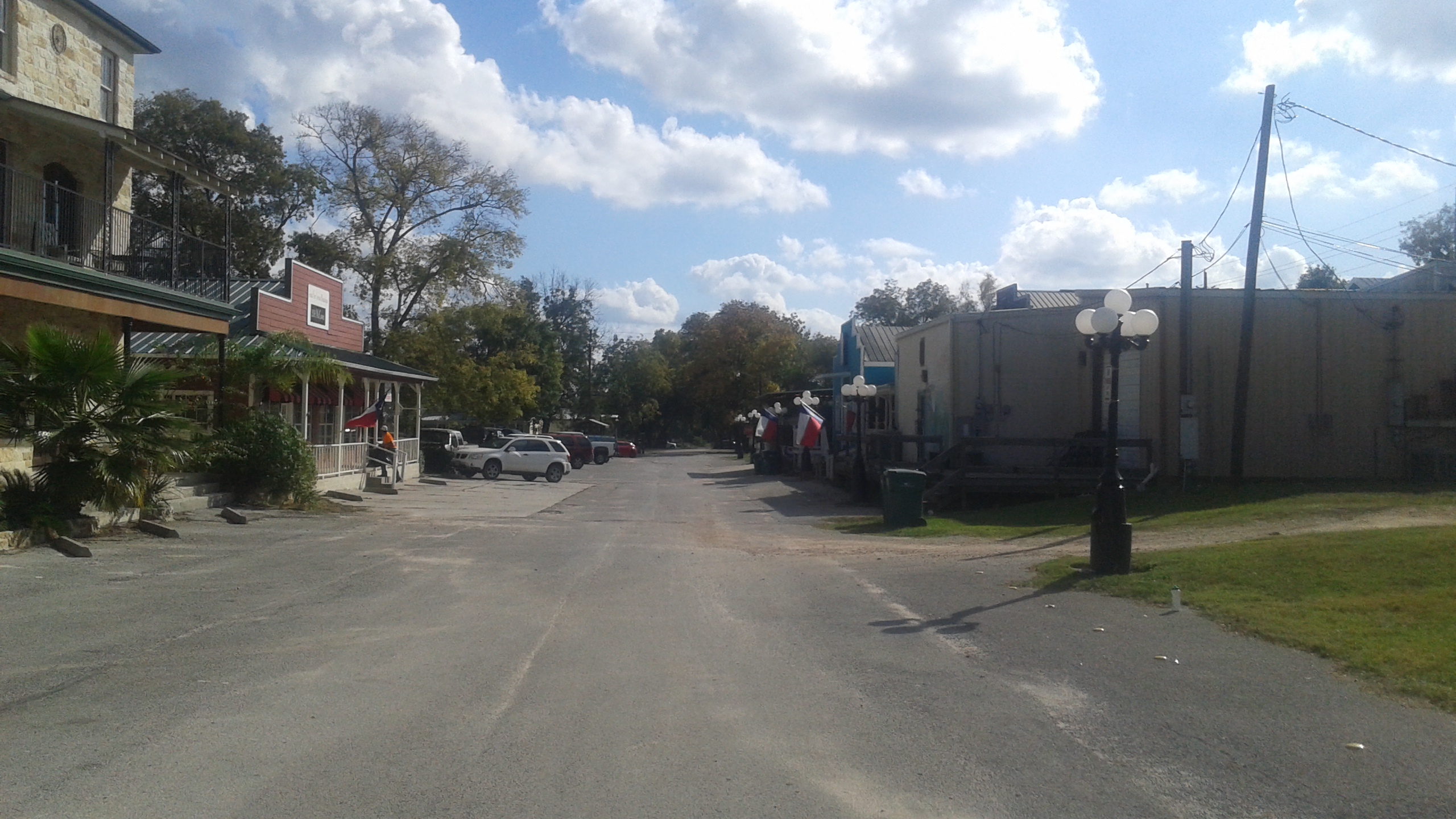 Montgomery, Texas, Historic Business District. View from McCown Street facing south.